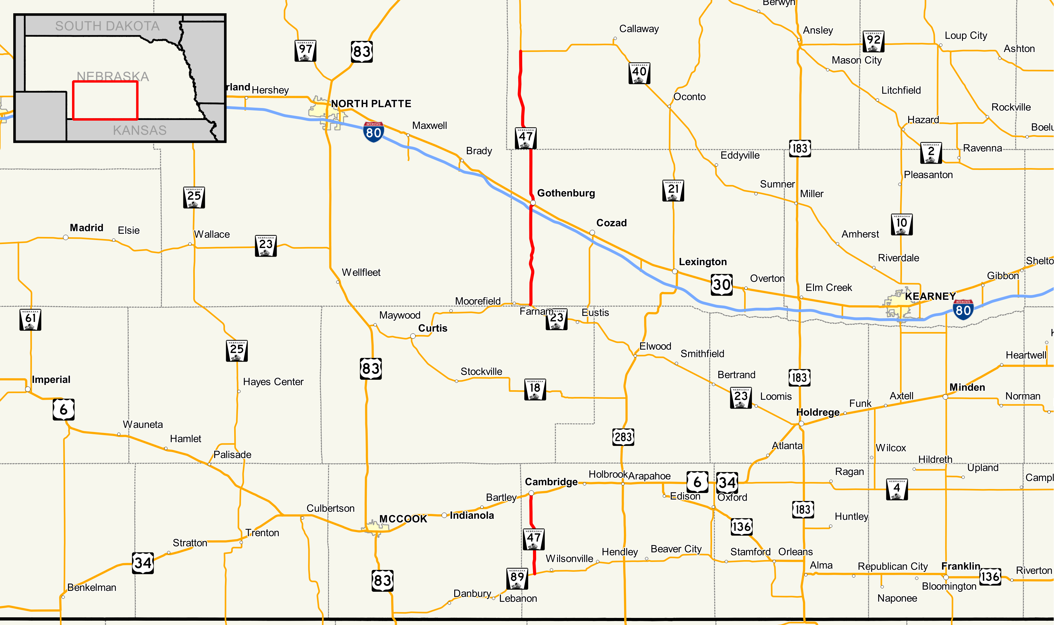 Map of Nebraska Highway 47 Data Sources: Nebraska Highways - - Dec 2016 Nebraska County Boundaries - - Dec 2016 Nebraska City Boundaries - - Dec 2016 This PNG graphic was created with QGIS